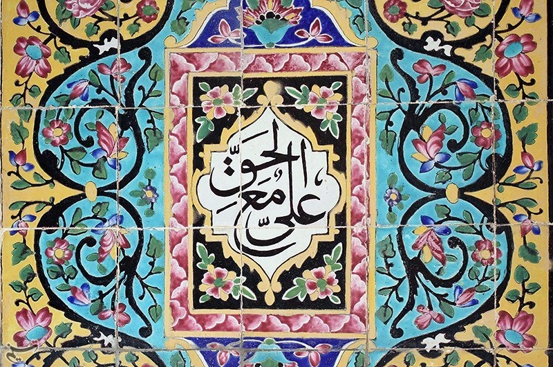 Imam Ali shrine on May 1, 2015 decorated for his birth anniversary as 13th Rajab. main album